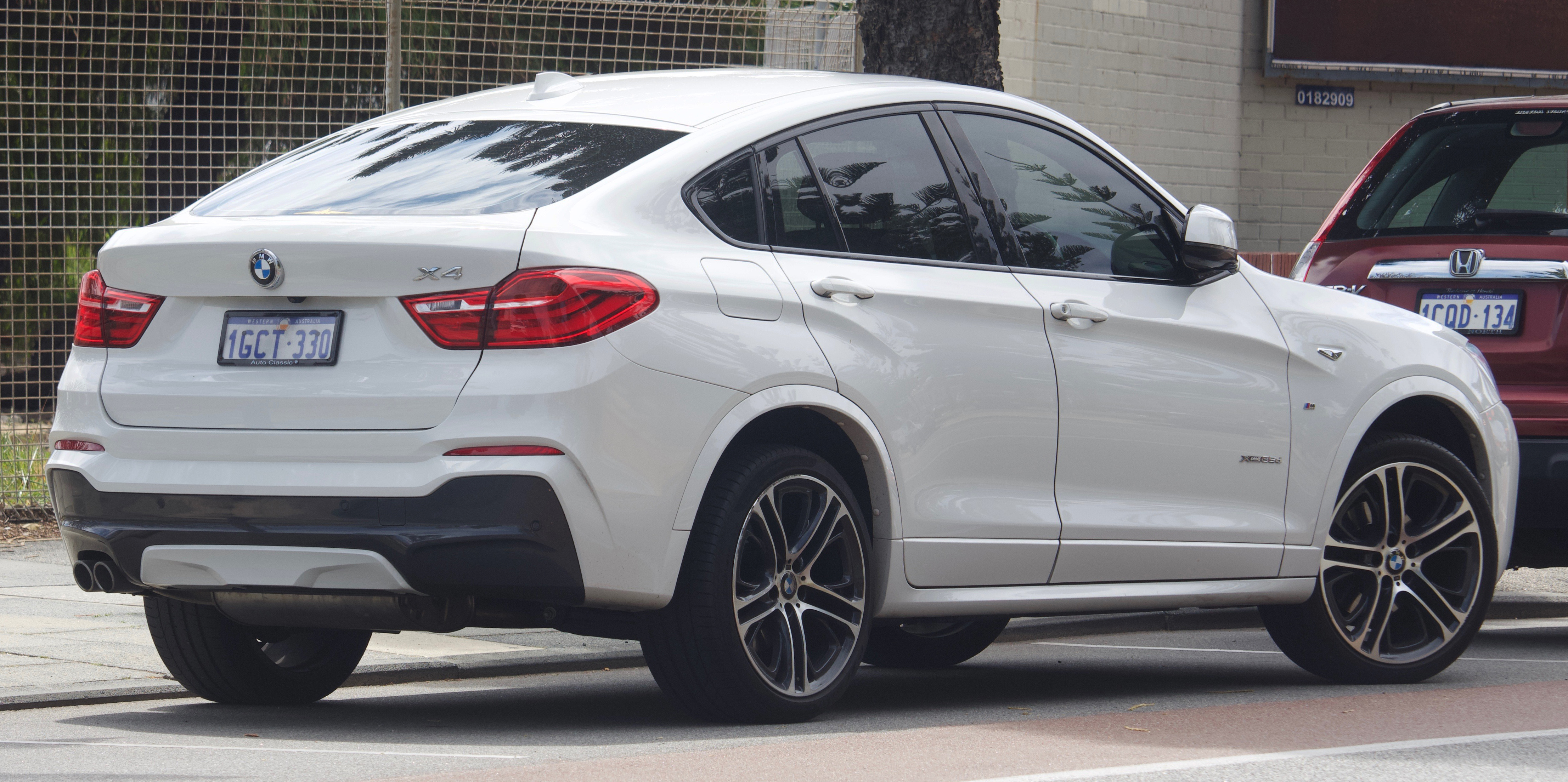 2016 BMW X4 (F26) xDrive35d 4x4 wagon. Photographed in Fremantle, Western Australia, Australia.